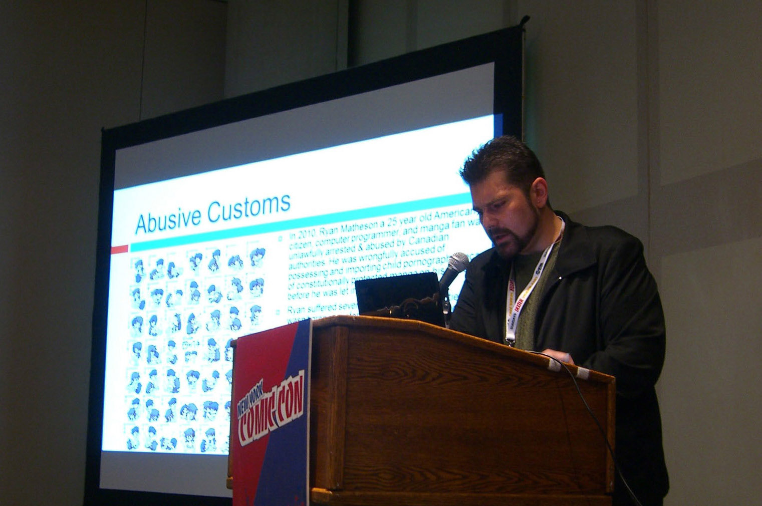 Charles Brownstein, Executive Director of the Comic Book Legal Defense Fund, speaking during a presentation on the CBLDF on Day 2 of the 2012 New York Comic Con, Friday October 12, 2012 at the Jacob K. Javits Convention Center in Manhattan. This photo was created by Luigi Novi. It is not in the public domain, and use of this file outside of the licensing terms is a copyright violation.